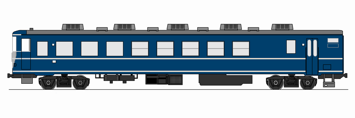 The side view of the Passenger Car(Brake_van) series 12 of JNR Nagoya.